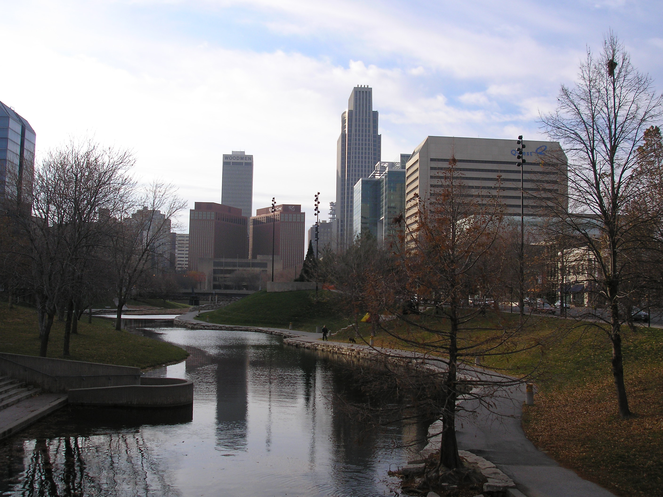 Skyline of Downtown Omaha, Nebraska, United States, from the Gene Leahy Mall.